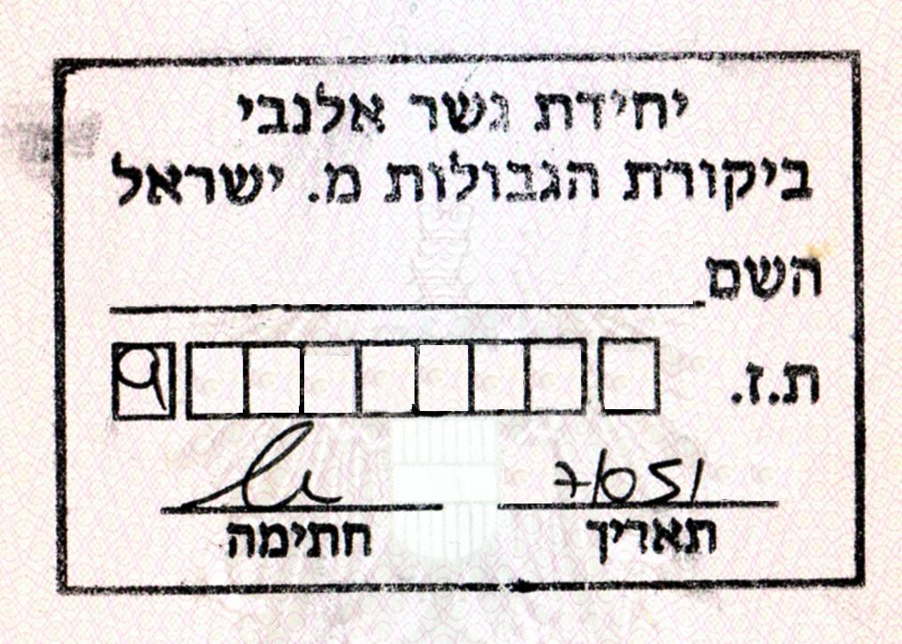 Stamp with I.D. No. put by Israel border authority in new foreign passports of Palestinians